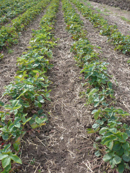 strawberry field